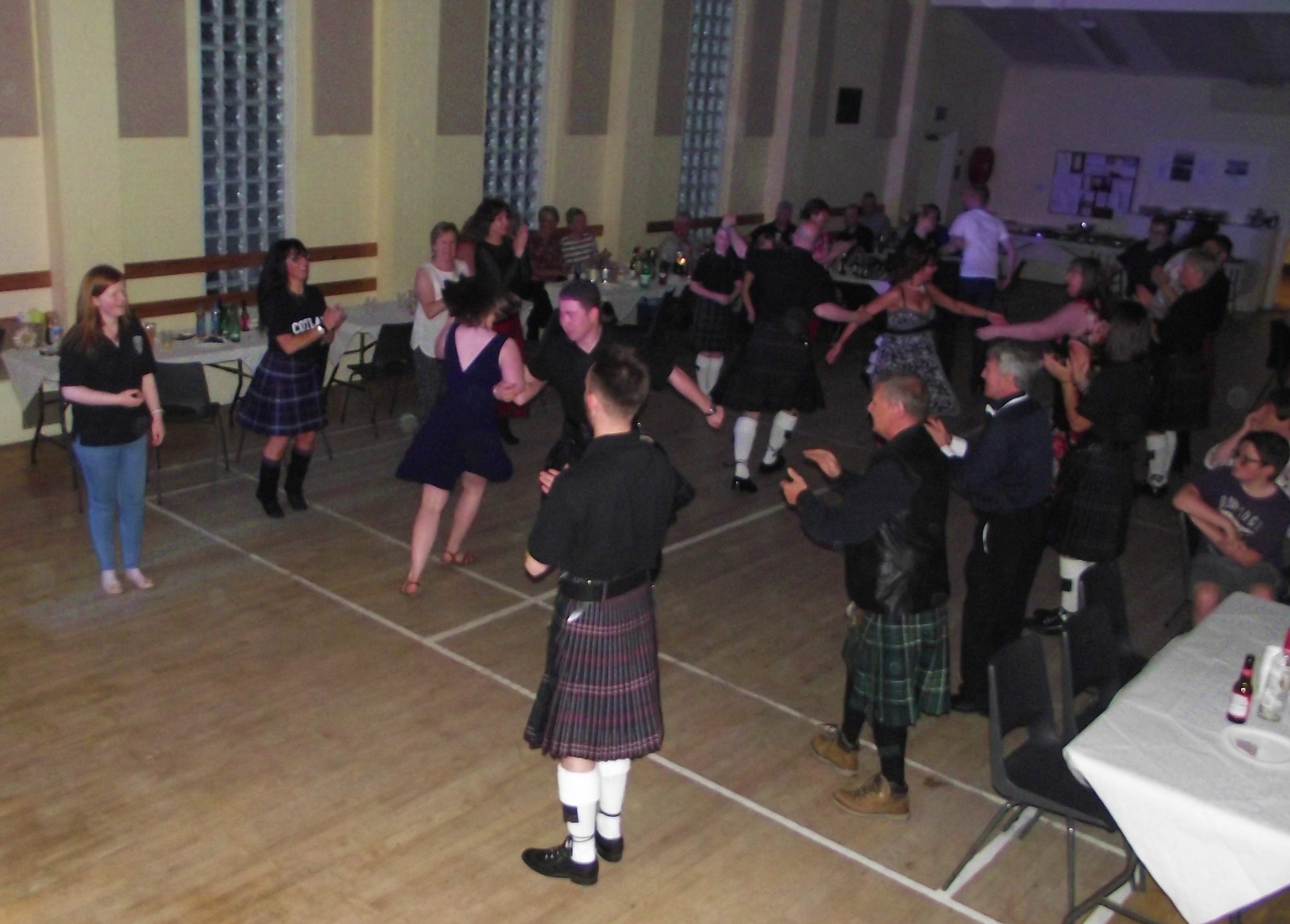 Dancing in full swing!! BAND FUNDRAISING CEILIDH: despite competition from another wee musical event (Sir Rod Stewart's concert at Caledonian Stadium!) just across the Beauly Firth, the Northern Constabulary Community Pipe Band's Fundraising Ceilidh was a roaring success and a superb evening of conviviality and entertainment (plus a great buffet!!). Great music from the Colin Donaldson Ceilidh Band … and of course from our own pipers and drummers - 12 pipers and 6 drummers really had the place rocking. I've heard the Band play the "STB" (Scotland The Brave / Wings / Flett from Flotta / 51st Highland Division) set literally HUNDREDS of times over the years - but tonight's performance was truly SOMETHING SPECIAL. Highland Cathedral and Dark Island - by special request of Band Secretary for family members who had travelled from England to attend the ceilidh - were also particularly appreciated. Sincere thanks to all who came along, or otherwise supported this event - and especially to the Band members and their families who did all the work to organise the event. Truly MORE THAN JUST A BAND! When are we having another one like tonight???